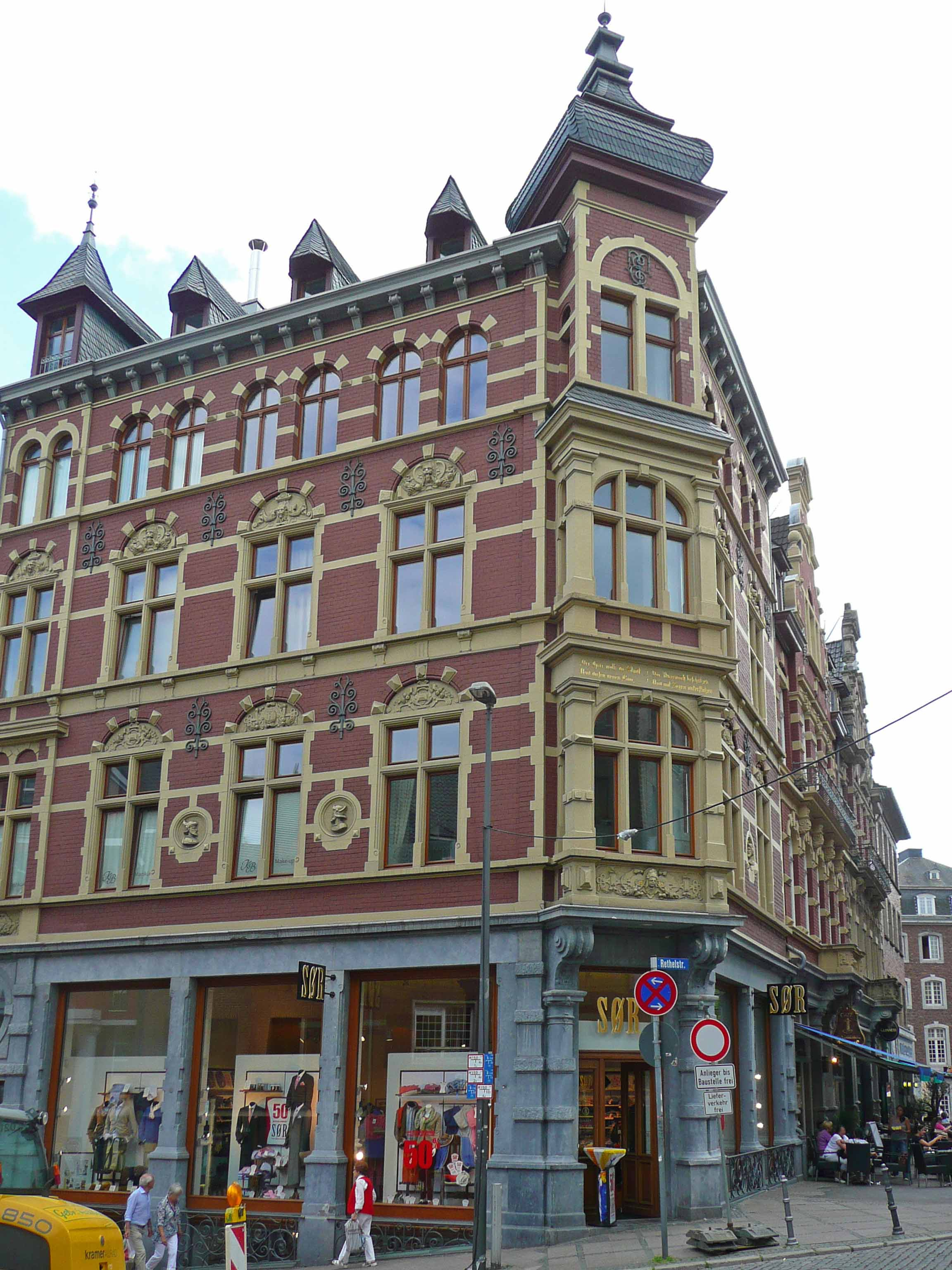 Building in Aachen, Büchel